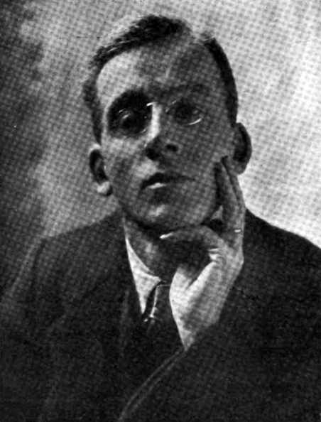 Image of Wilfrid Wilson Gibson in The Bookman Vol. 57 (December 1919, p. 102).